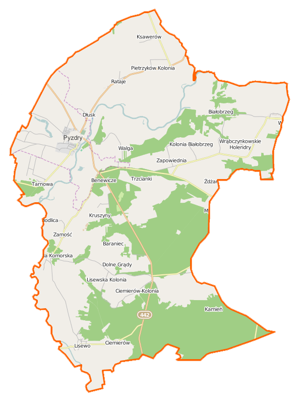 Map of Gmina Pyzdry, Poland This map of Pyzdry (gmina) was created from OpenStreetMap project data, collected by the community. This map may be incomplete, and may contain errors. Don't rely solely on it for navigation.